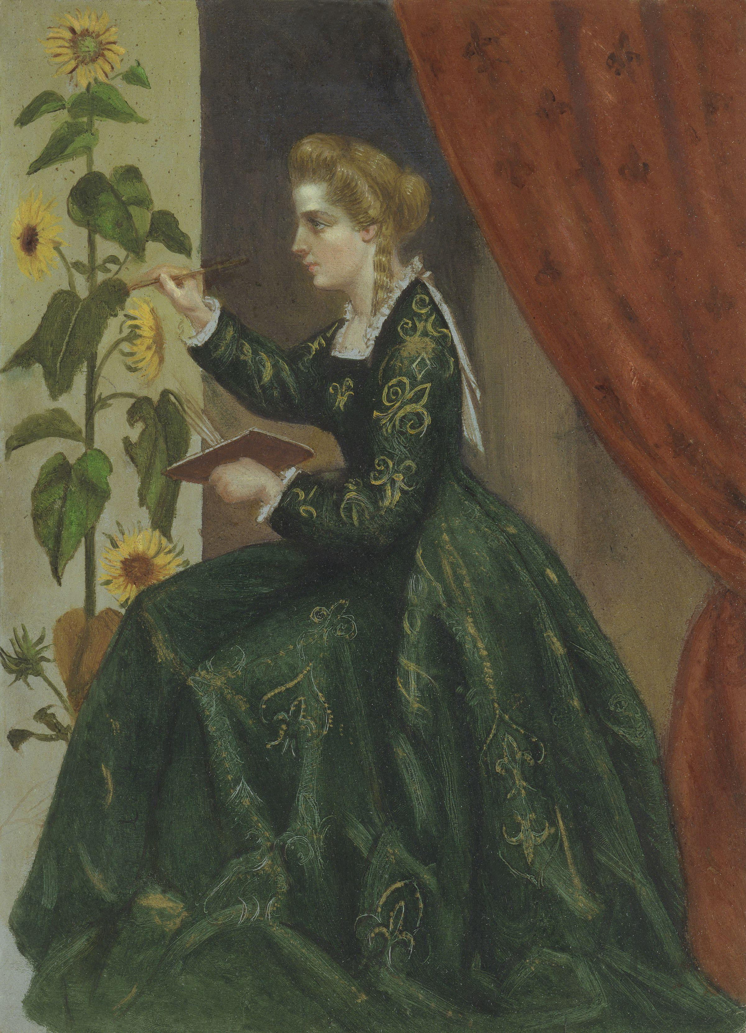 Emilia Francis (née Strong), Lady Dilke, by Laura Capel Lofft (afterwards Lady Trevelyan) (died 1884). All images in this batch have been confirmed as author died before 1939 according to the official death date listed by the NPG.